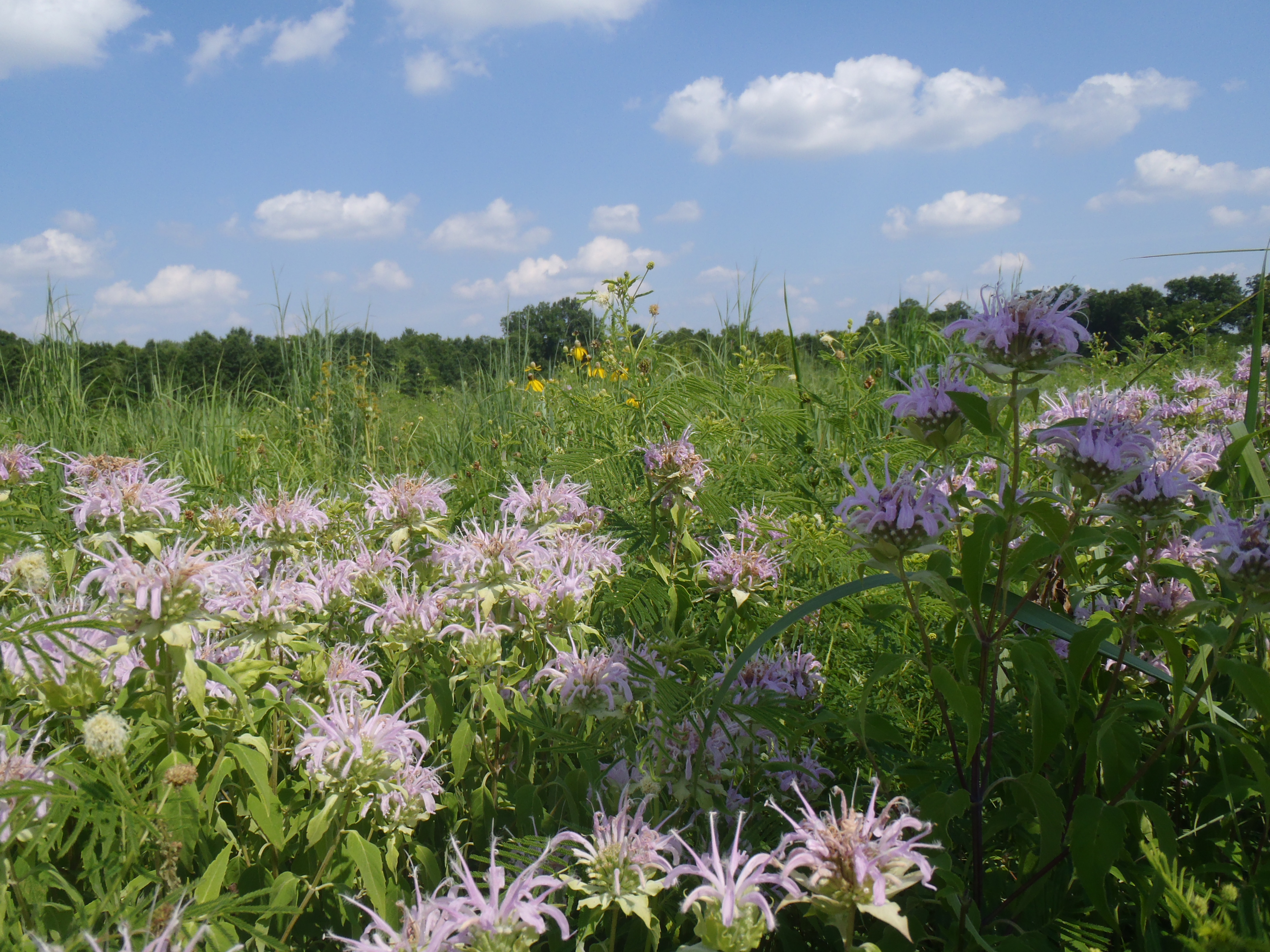 Brilliant colors can be seen in the tallgrass prairie at different times of the year. This array of colors indicates the summer season. Photo credit: USFWS